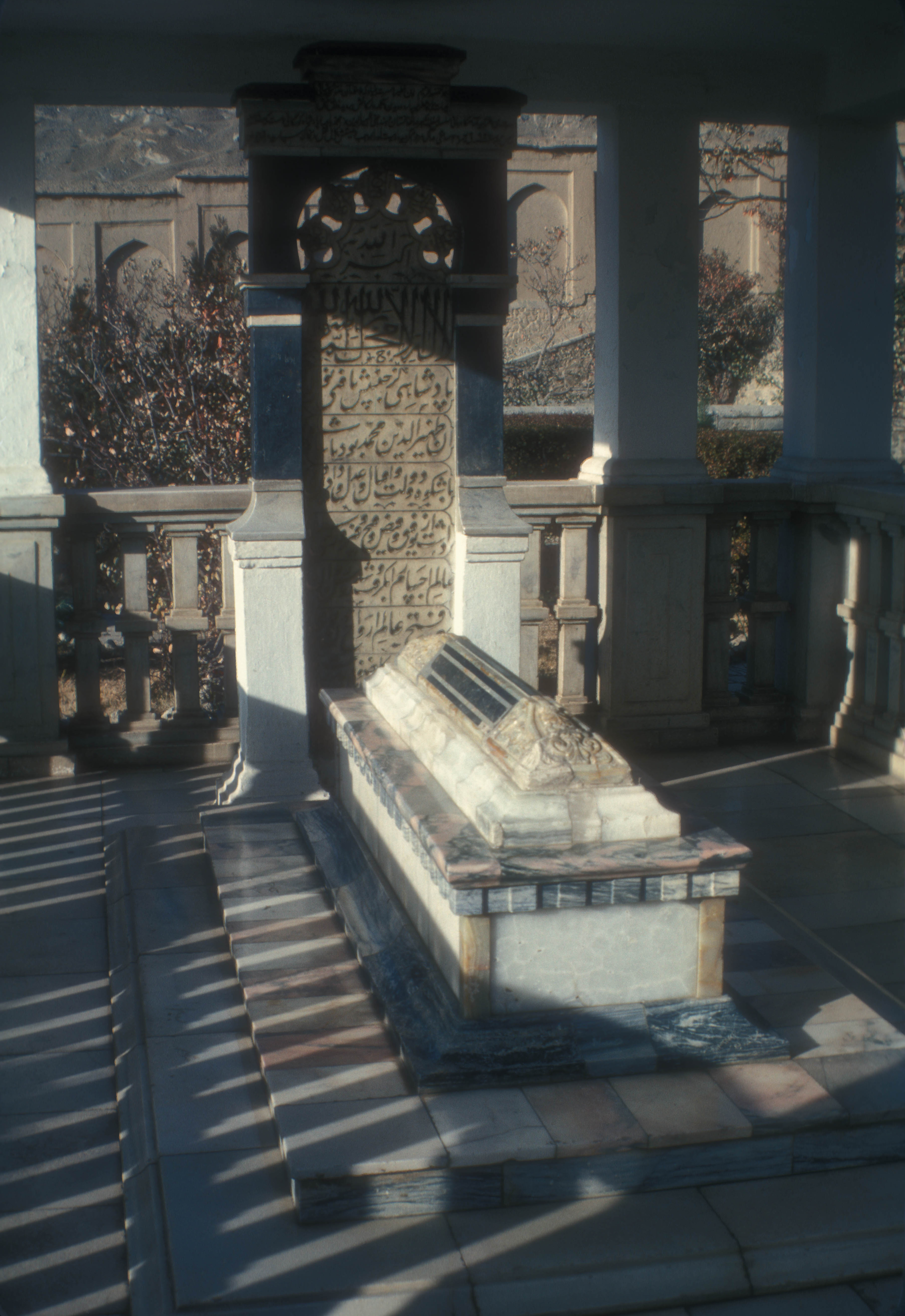 THIS IS THE ACTUAL TOMB OF BABUR THE TIGER IN A LARGE GARDEN COMPLEX IN KABUL. BABUR WAS THE FOUNDER OF THE MOGHUL DYNASTY WHICH RULED INDIA UNTIL THE BRITISH OVERTHREW THEM.